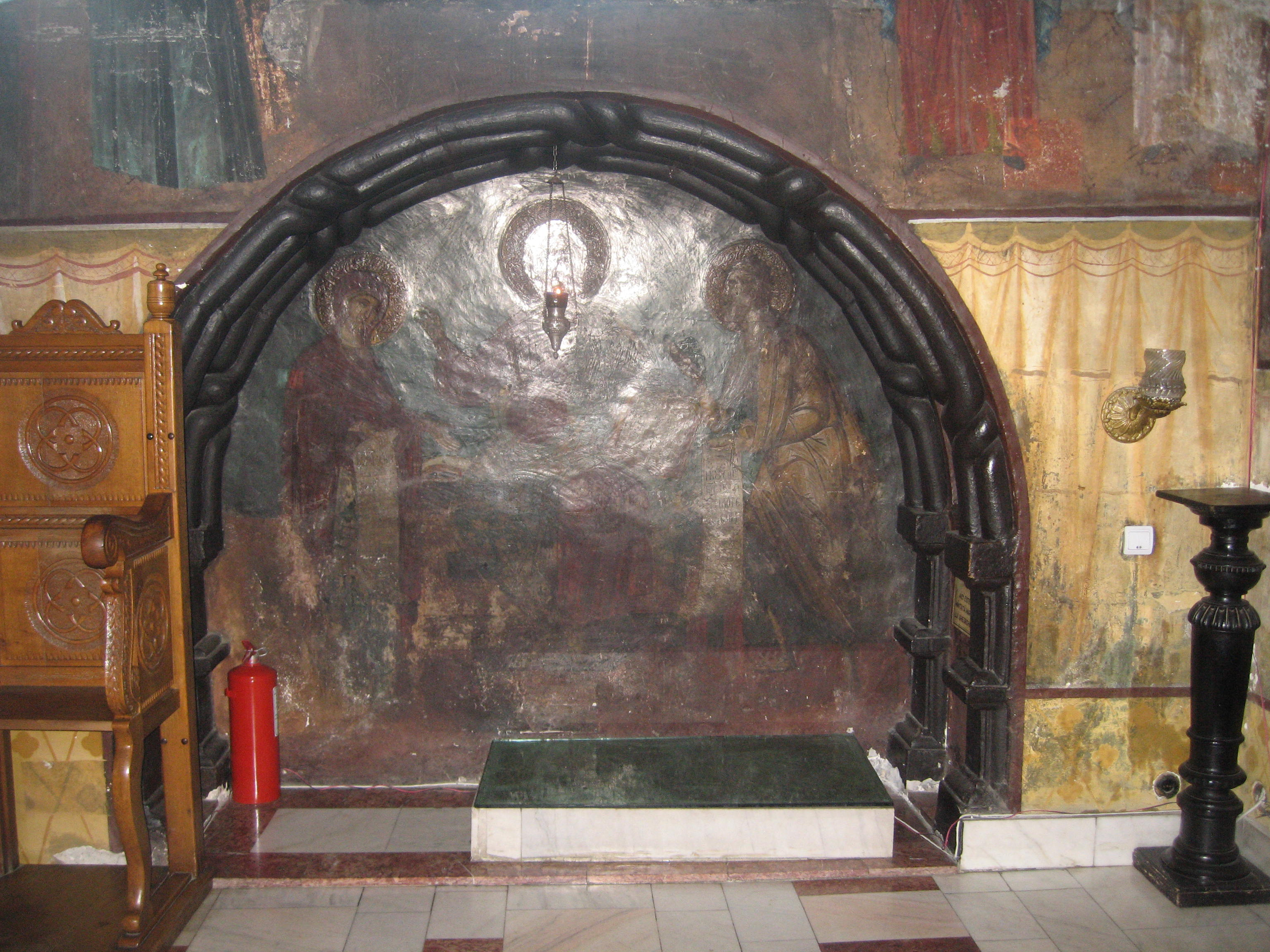 Mănăstirea Cetăţuia